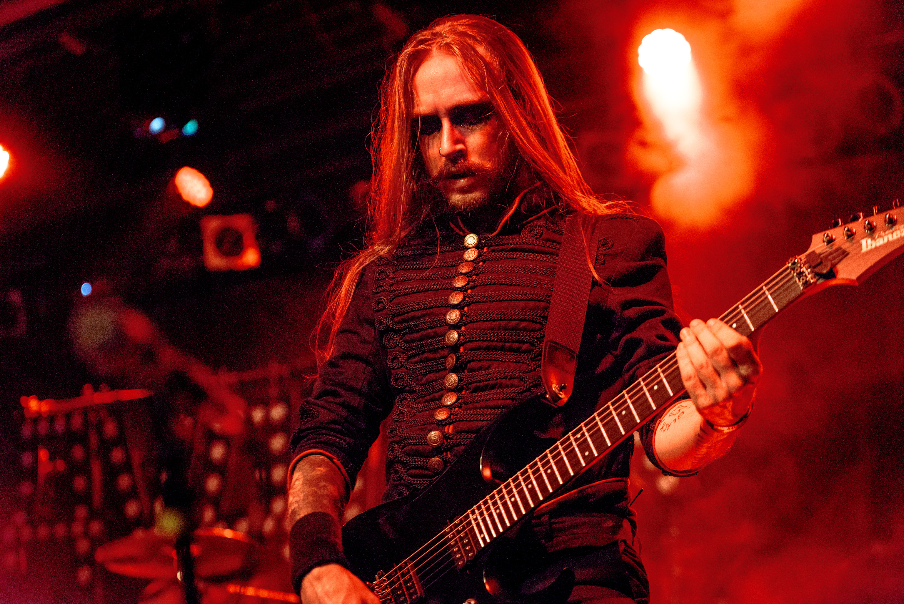 Avatar Live @ Free & Easy Festival 2015